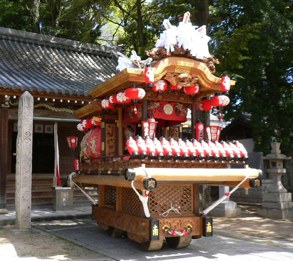 Danjiri(Festival car)of Kawamo Jinjya(Shrine at Takarazuka, Hyōgo in Japan).